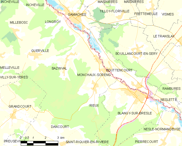 Map of French municipality Monchaux-Soreng